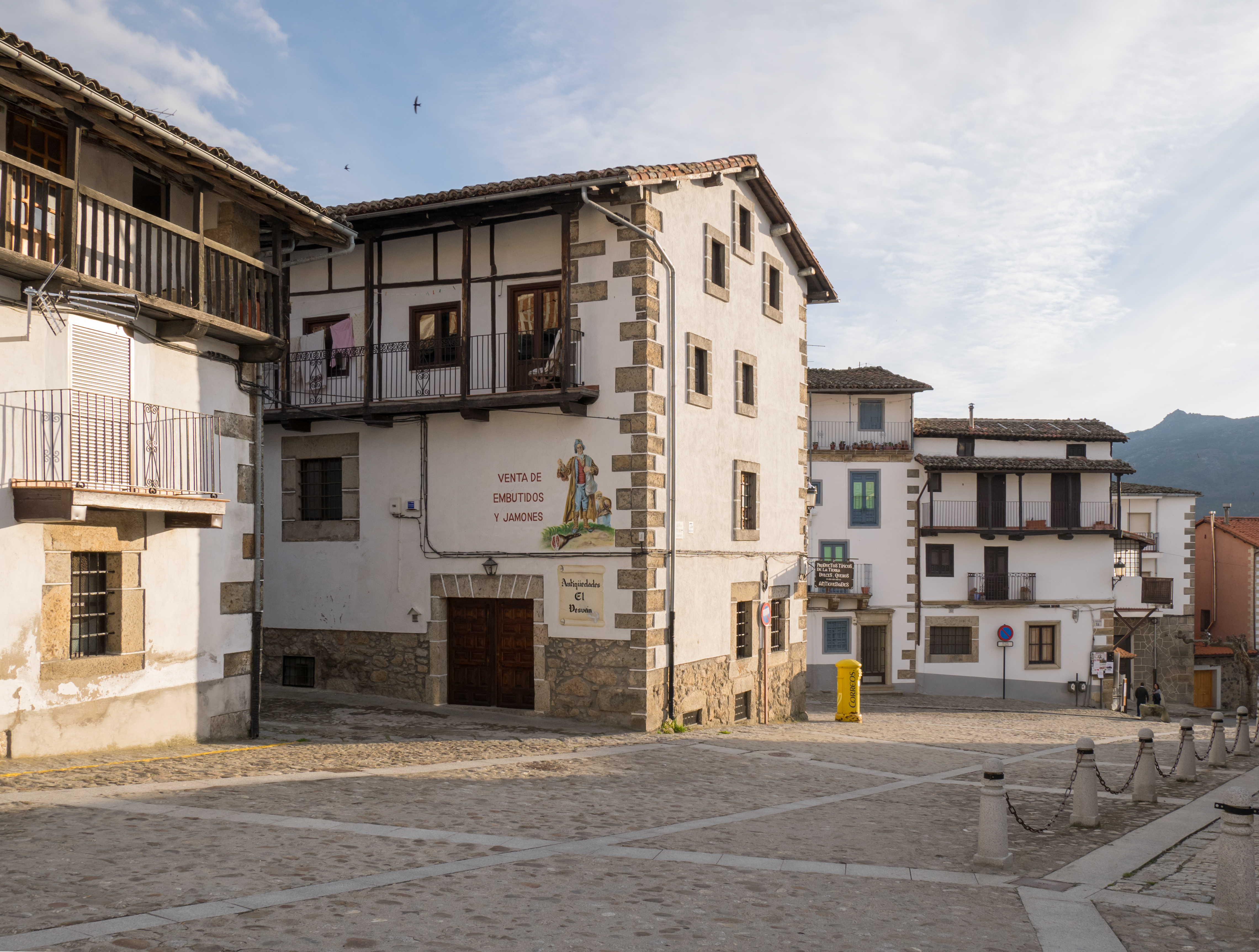 Village houses in Candelario. Salamanca, Castile-Leon, Spain